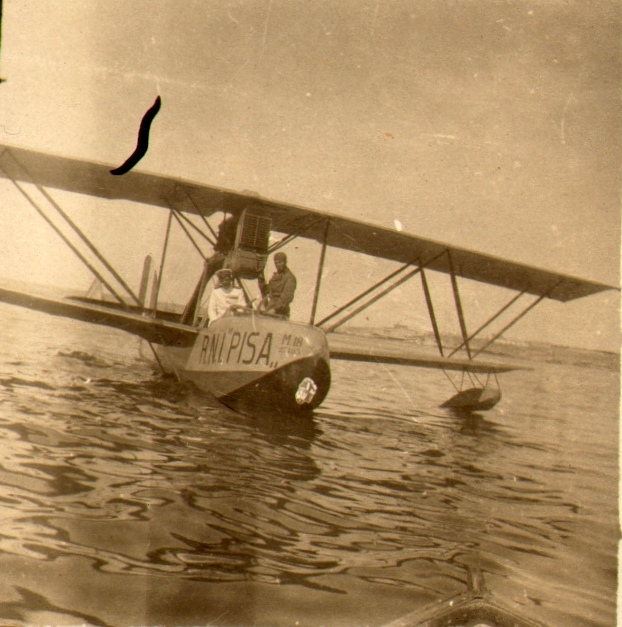 HM Ship Pisa biplane. The original picture, scanned by Emiliano Burzagli, belongs to the Private archive of Burzaghi family, Italy.